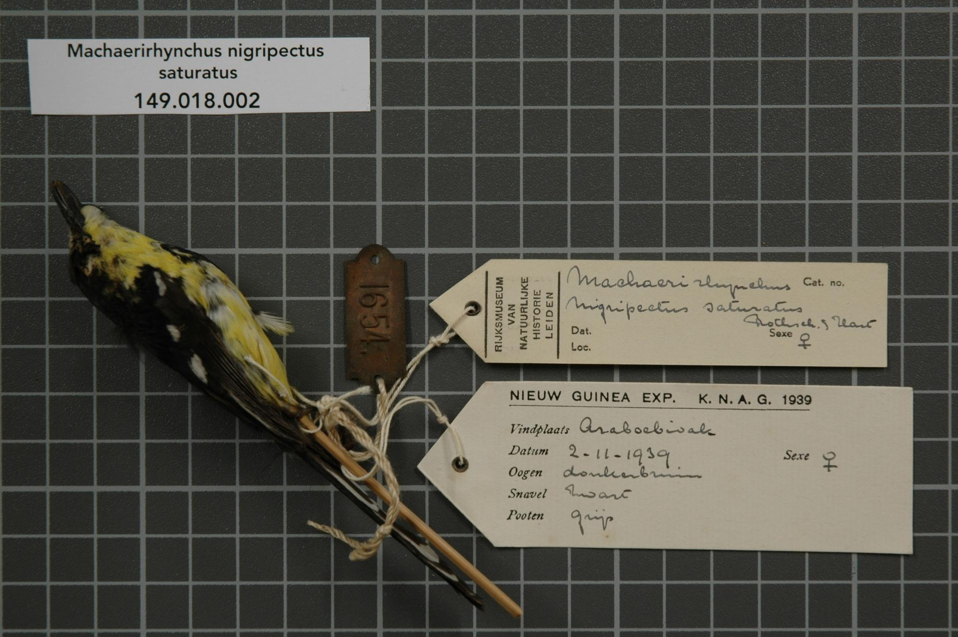 Machaerirhynchus nigripectus saturatus Rothschild and Hartert, 1913